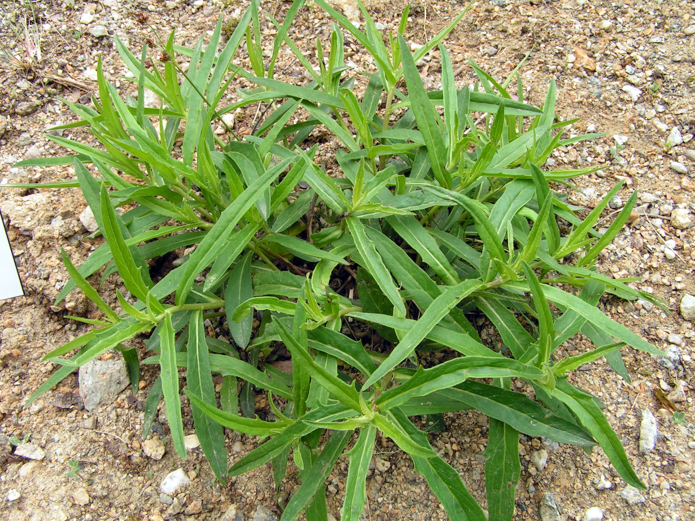 Hieracium umbellatum in the Botanical Garden of the University of Vienna